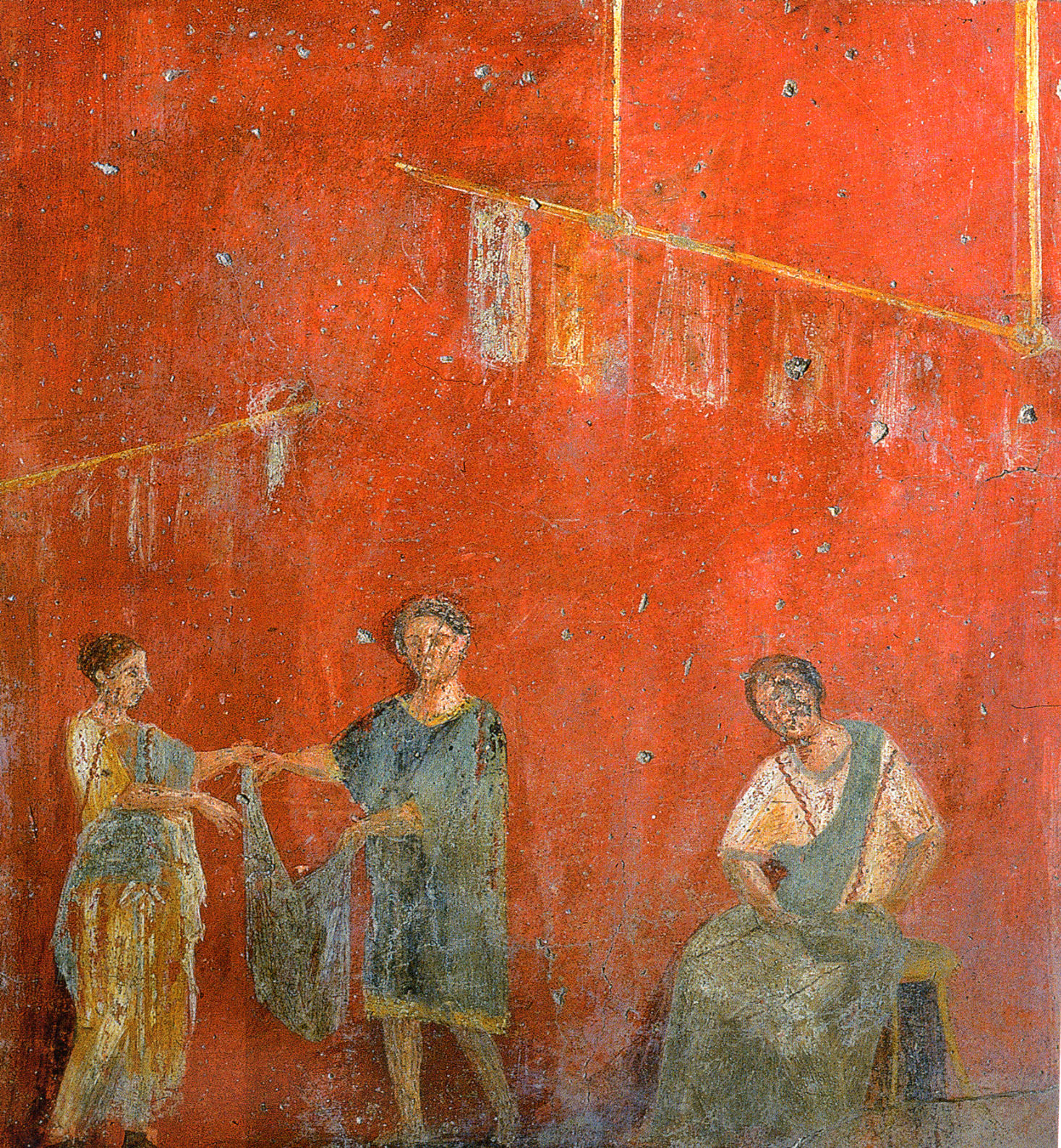 Workers putting up clothes for drying. Roman fresco from the fullonica (fuller's shop) of Veranius Hypsaeus in Pompeii. Museo Archeologico Nazionale (Naples)